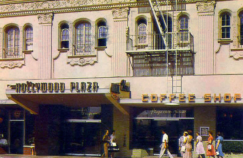 Postcard photo of the coffee shop of the Hollywood Plaza Hotel, Los Angeles.